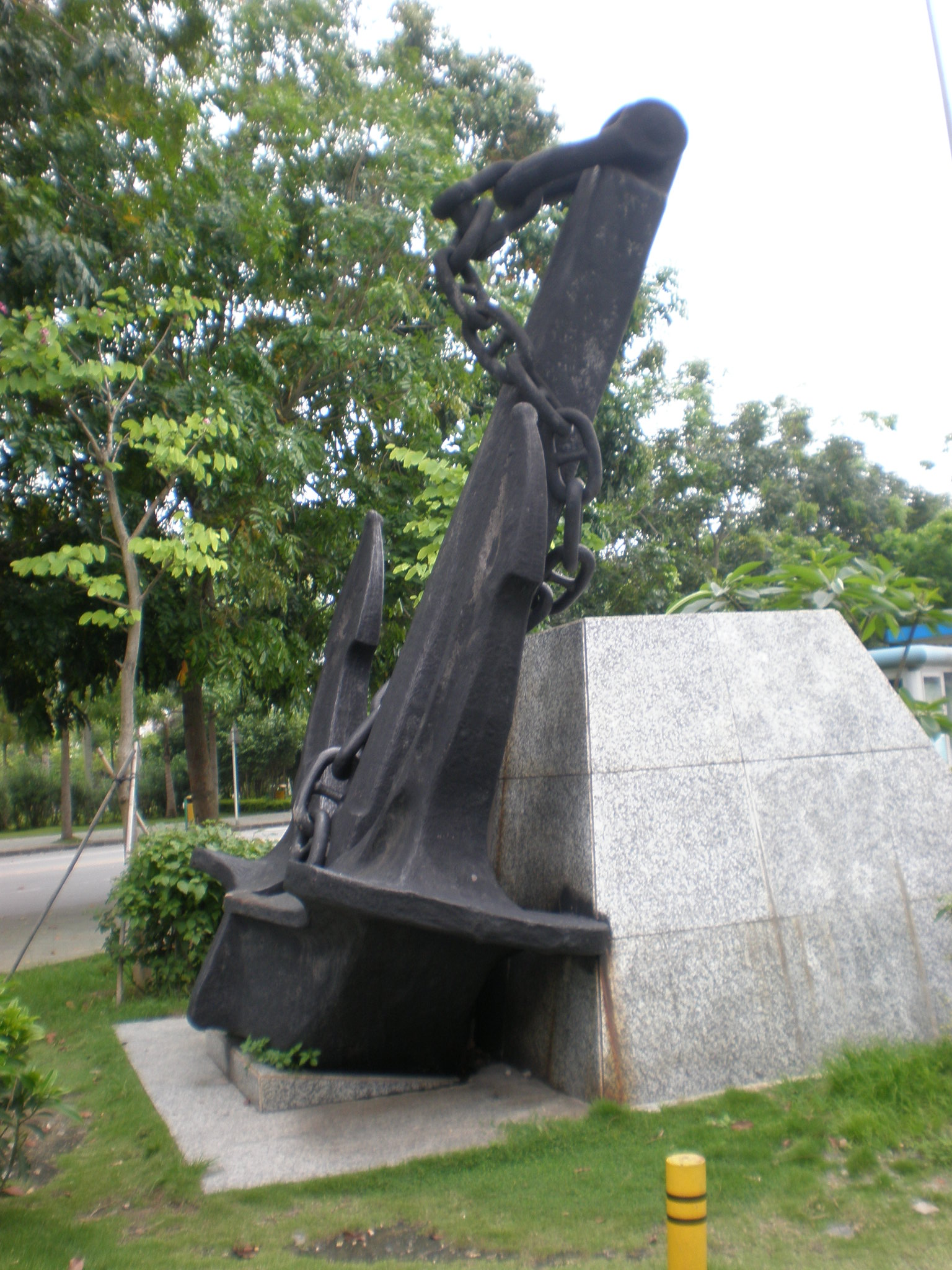 An anchor outside the main entrance to the Minsk World theme park in Shenzhen, PRC.